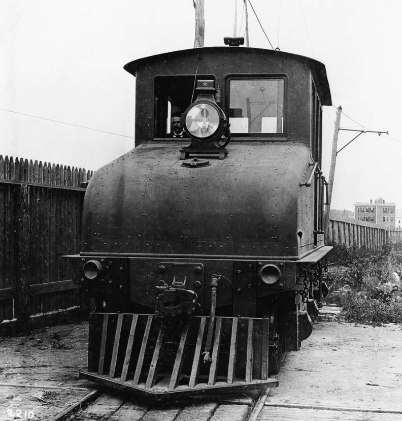 General Electric's first double-truck electric locomotive built in 1894 for the Cayadutta Railway. It spent most of its working life at a cotton mill in Taftville, Connecticut, where it was called Black Maria. GE classified the locomotive as Type 404-E70-4 (WP 20-500 volts)